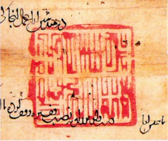 Damga from a Ilkhanid decree issued by Sadr al-Din Zanjani, probably serving as model for Ottoman Tughras. Was sent by the Yuan emporor Qubilai to the ilkhan, his nominal subordinate in Iran, written in Chinese (rotated 90° clockwise: "...尚書印" = "Seal of the Secretary General ...")